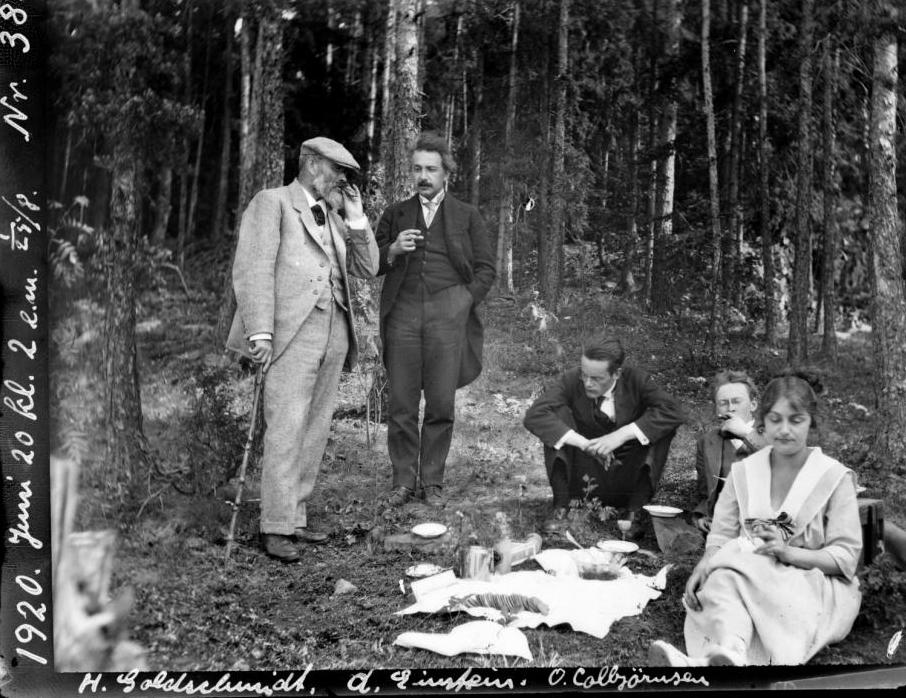 Einstein at a picnic near Oslofjorden in connection with his visit to Norway, June 1920